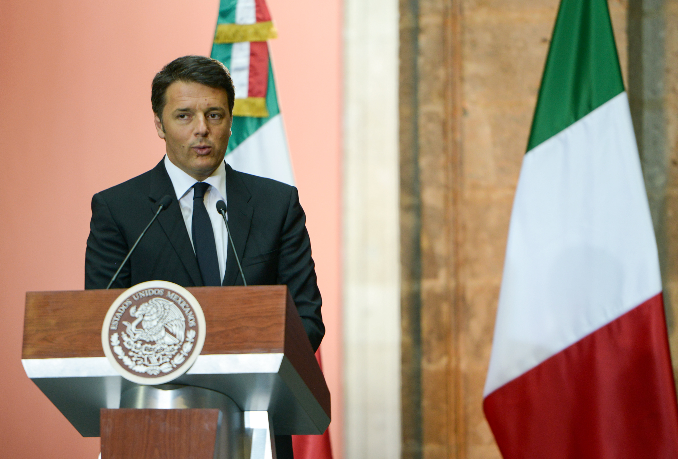 Matteo Renzi in Mexico in 2016